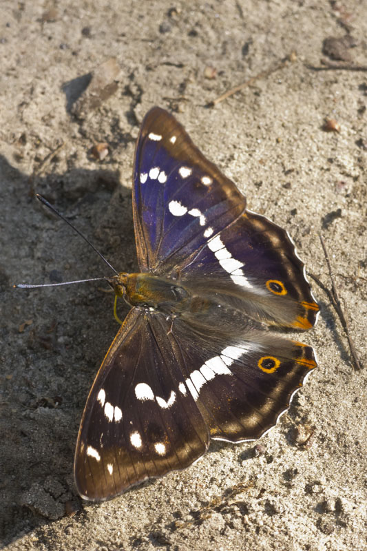 Apatura iris in the Aamsveen, The Netherlands